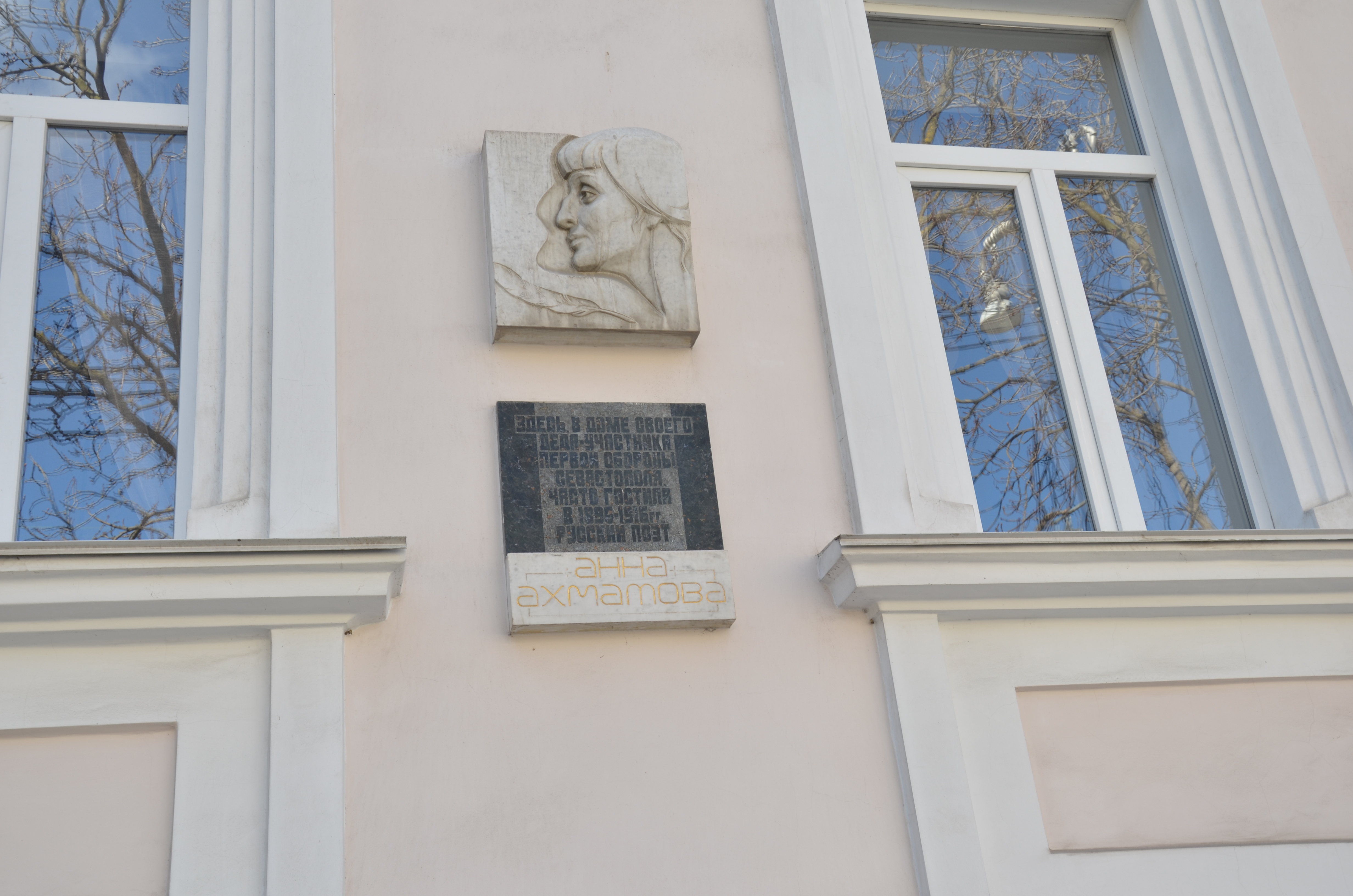 Plaque on the house where Anna Akhmatova, lived, Lenina street 8, Sevastopol